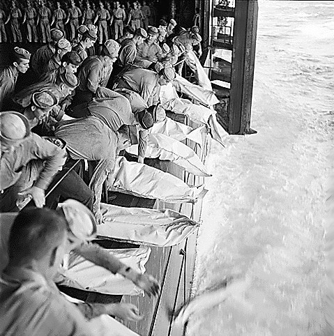 Burial at sea for the officers and men of the U.S. Navy aircraft carrier USS Intrepid (CV-11) who lost their lives when the carrier was hit by Japanese bombs during operations in the Philippines, 26 November 1944.